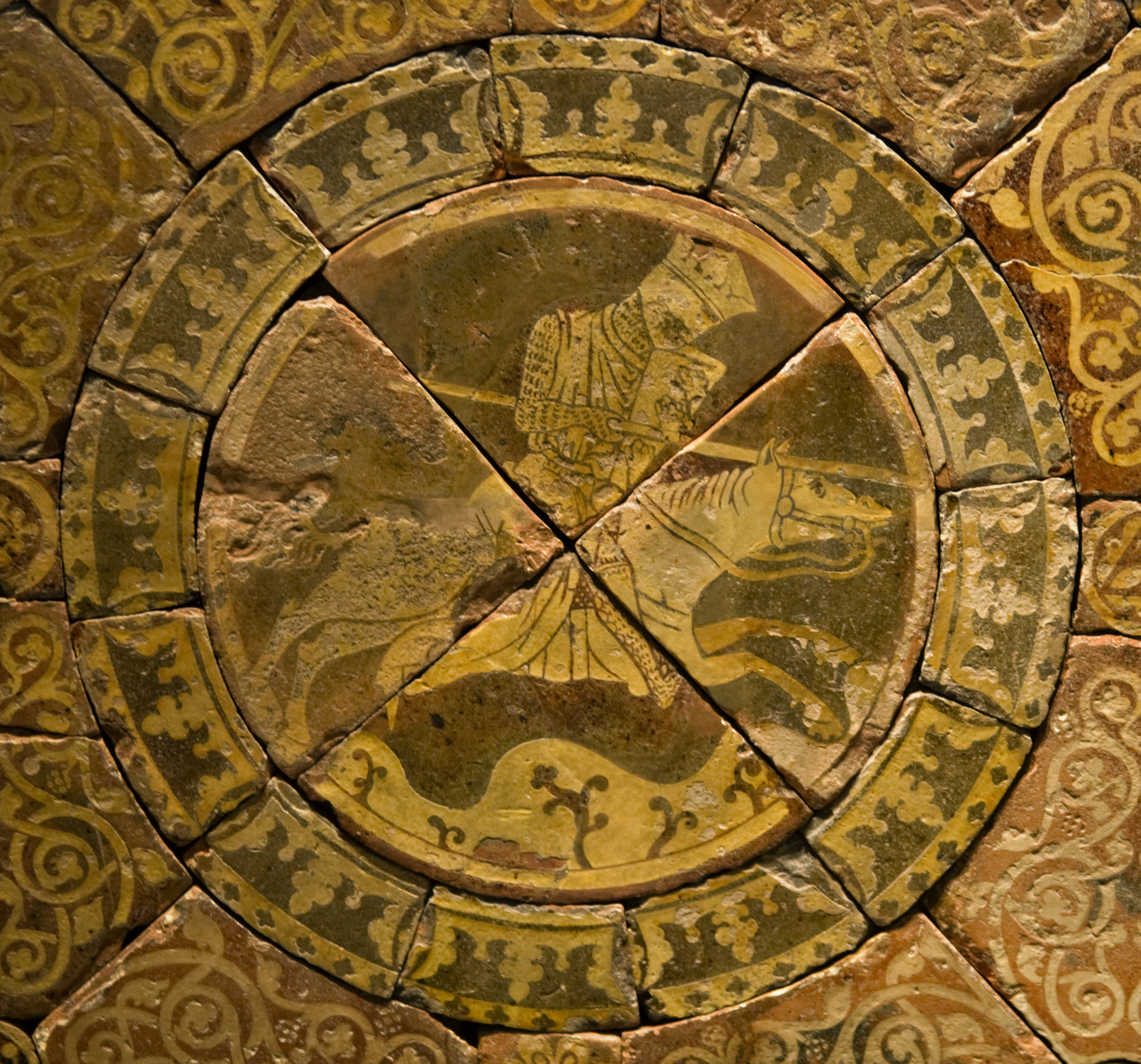 Tiles depicting Richard I of England, part of a set also including Saladin, now in the British Museum. Tag on exhibit states: "Tiles showing Richard and Saladin." and "About 1250-60, Chertsey, England, Earthenware, lead-glazed. PE 1885,1113.9051-60;9065-70 Given by Dr. H. M. Shurlock." See BM database entry for more details.